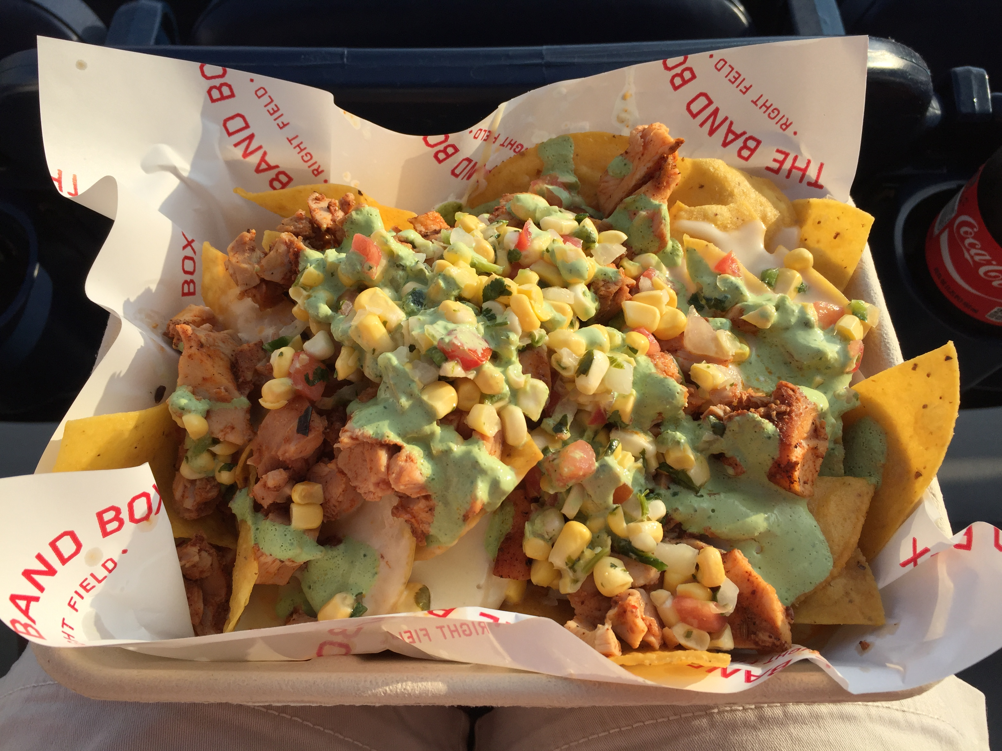 Smoked chicken nachos with jalapeno queso, sweet corn, pico de gallo, and cilantro crema served at The Band Box at First Tennessee Park in Nashville, Tennessee